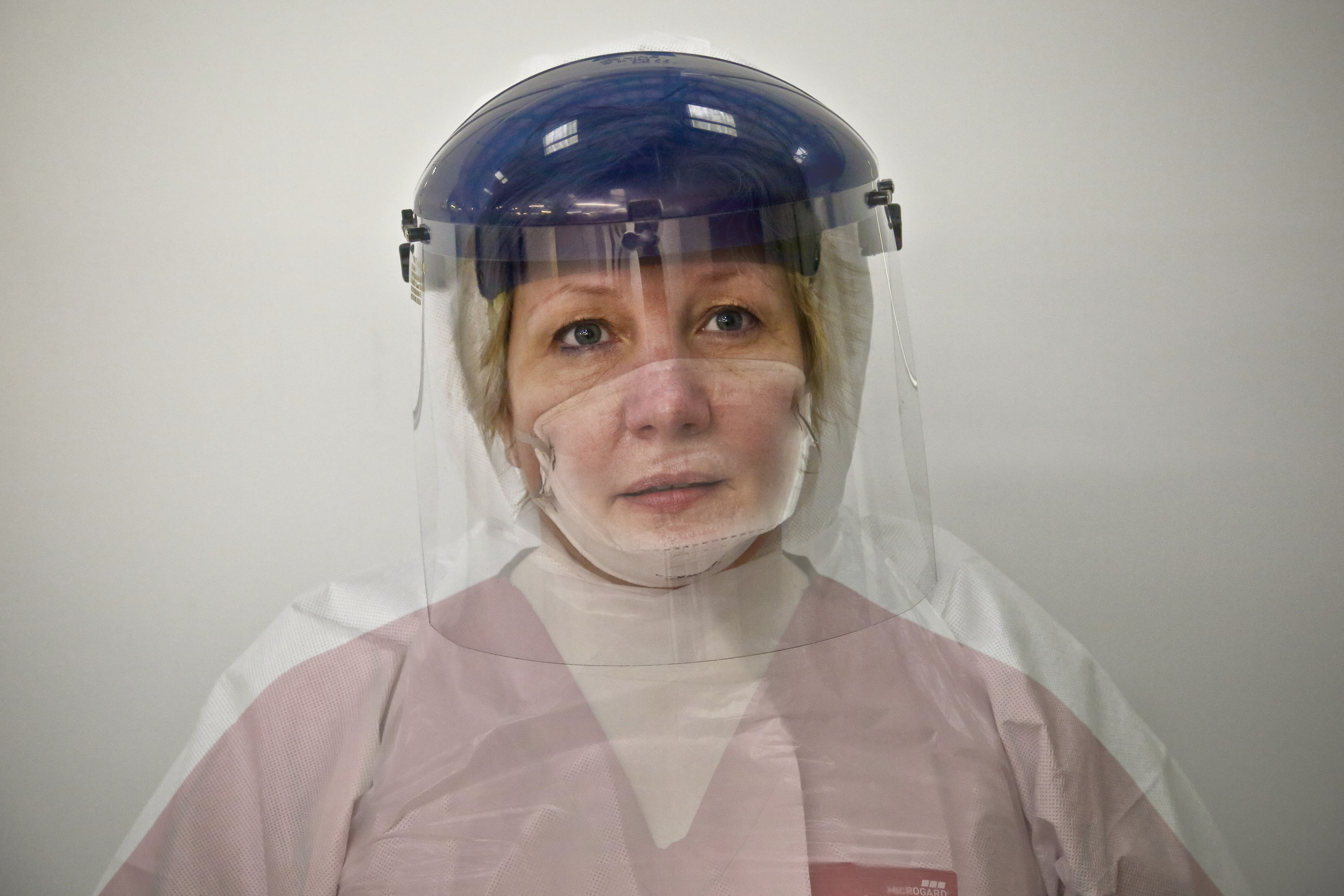 Senior Sister Donna Wood has been nursing for 29 years. She's one of the many medics from across Britain's National Health Service who are joining the UK's fight against Ebola in Sierra Leone. "I'd been following the stories on the news and I felt I had to do this straight away: I could use the skills I’ve got to make a difference and join a team to help bring the disease under control." The medics - who include GPs, nurses, clinicians, psychiatrists and consultants in emergency medicine - will work on testing, diagnosing and treating people who have contracted the deadly virus. "I'm feeling very prepared. We’ve had gold standard training – second to none. Now I just want to get out there and use my skills. You don’t think of it as being heroic. It’s just what we do." Find out more about the medics behind the mask in our special feature: bit.ly/medicsbehindthemask Picture: Simon Davis/DFID Free-to-use photo This image is posted under a Creative Commons - Attribution Licence, in accordance with the Open Government Licence. You are free to embed, download or otherwise re-use it, as long as you credit the source as 'Simon Davis/DFID'.